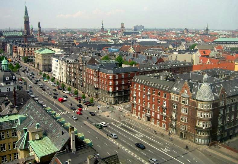 View from DANHOSTEL Copenhagen City. You can spot the City Hall, Frue Kirke, the Round tower.